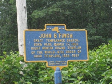 Historic marker of John B. Finch, a great temperance orator. Born in Lincklaen, March 17, 1852. Right Worthy Grand Templar of the World Wide Order of Good Templars, 1884-1887.